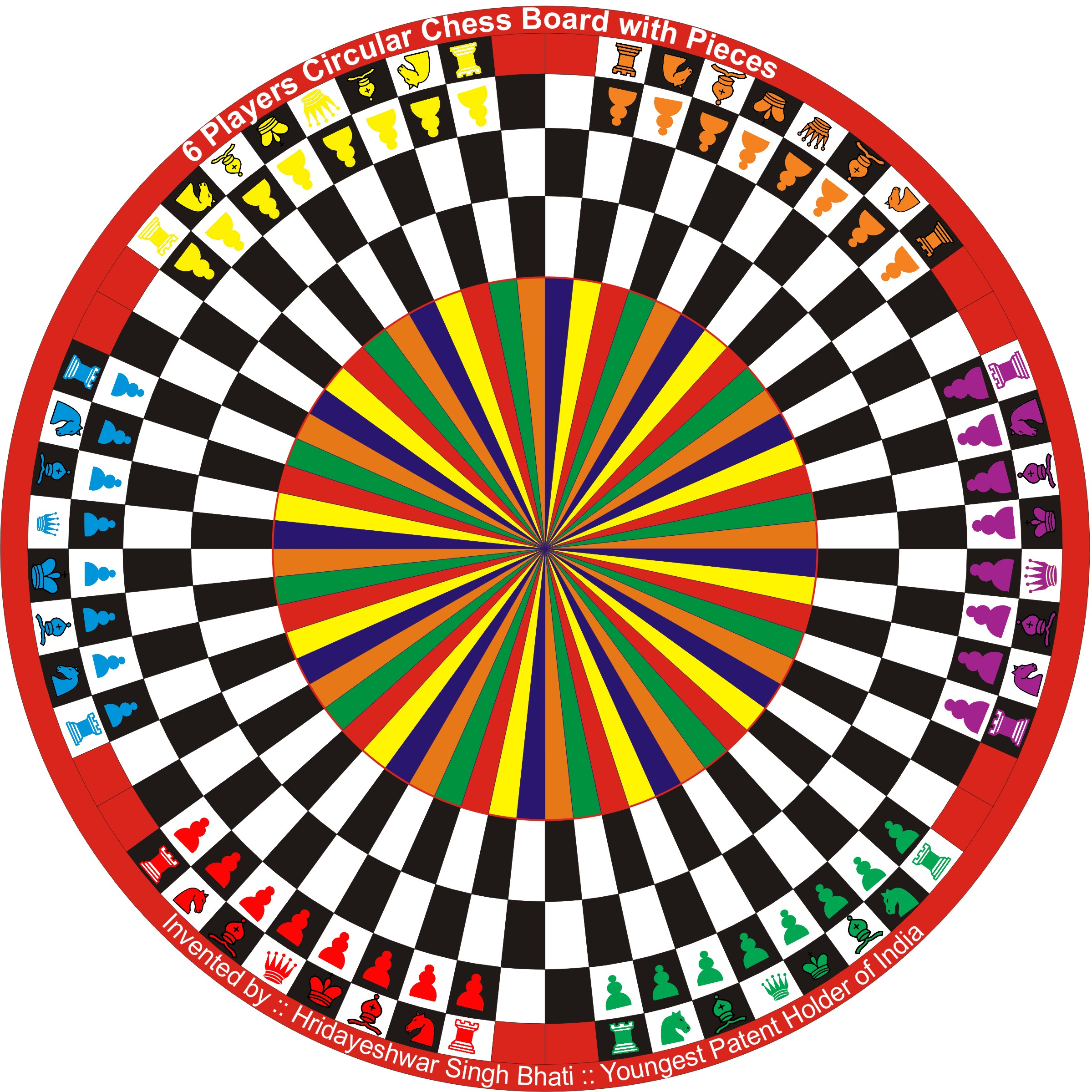 Hridayeshwar Singh Bhati with his Chess Variants(Invented)